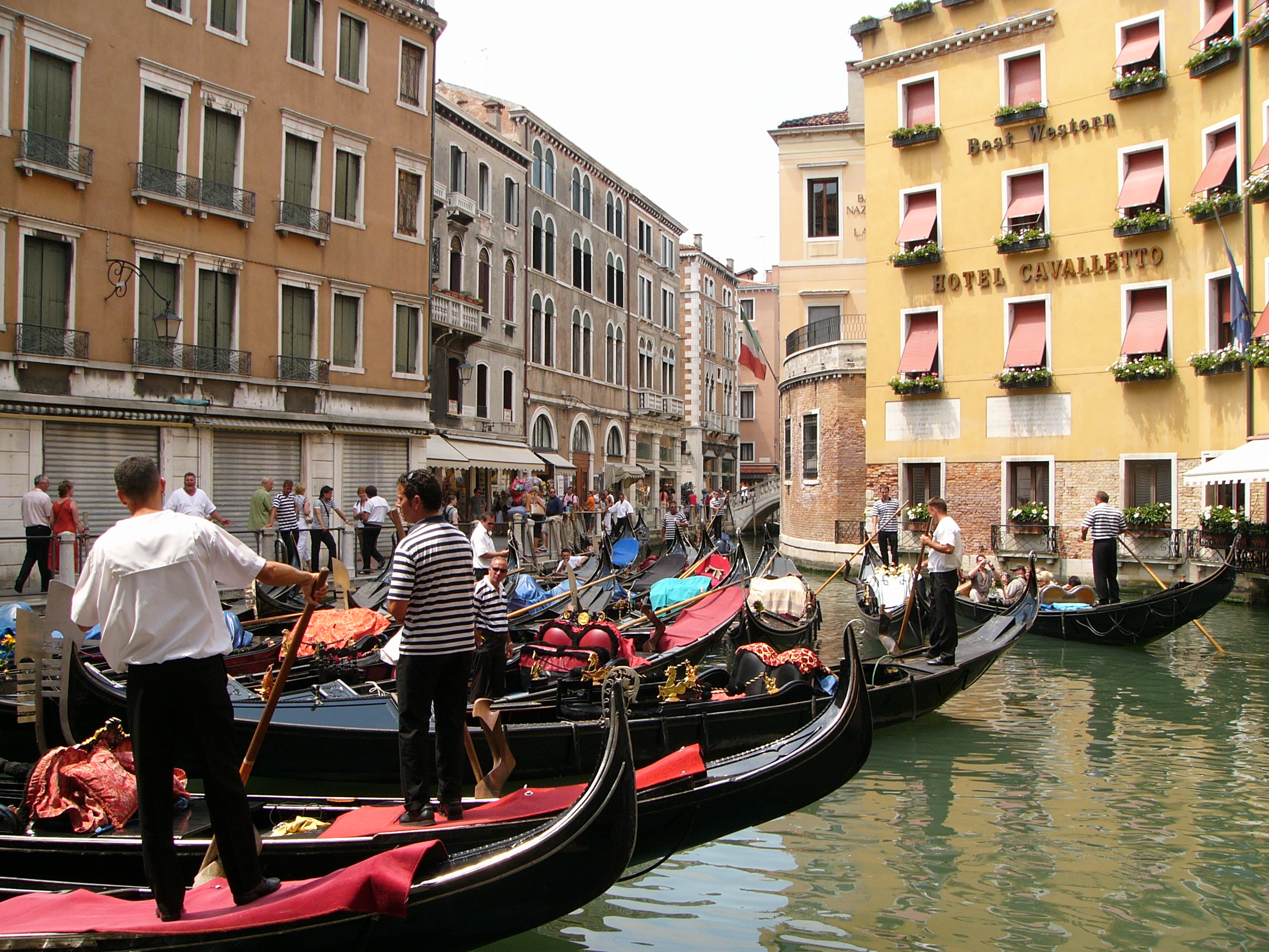 Bacino Orseolo in Venice